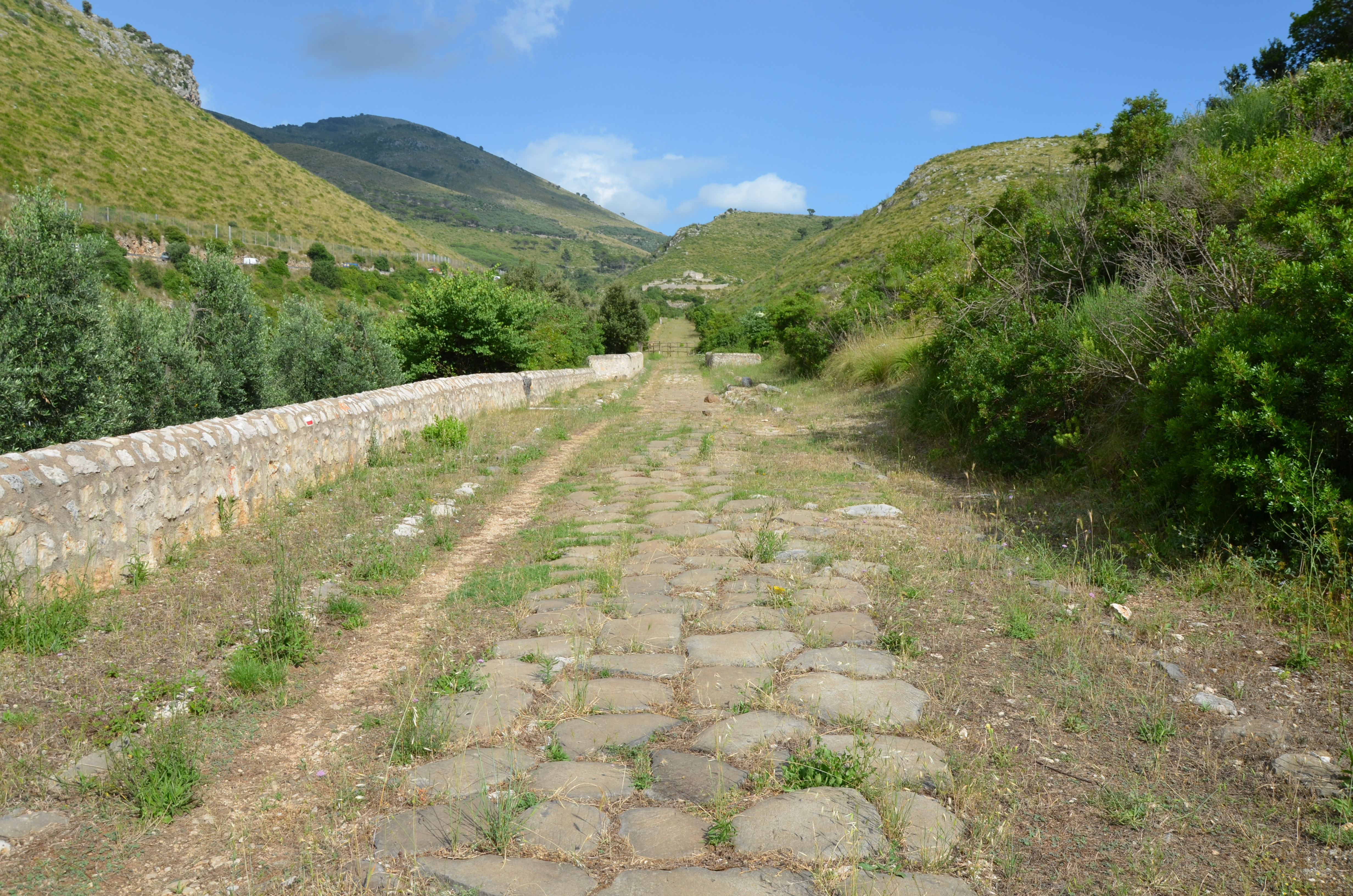 Stretch of the Via Appia at Sant'Andrea, km 126 (Parco Naturale dei Monti Aurunci)